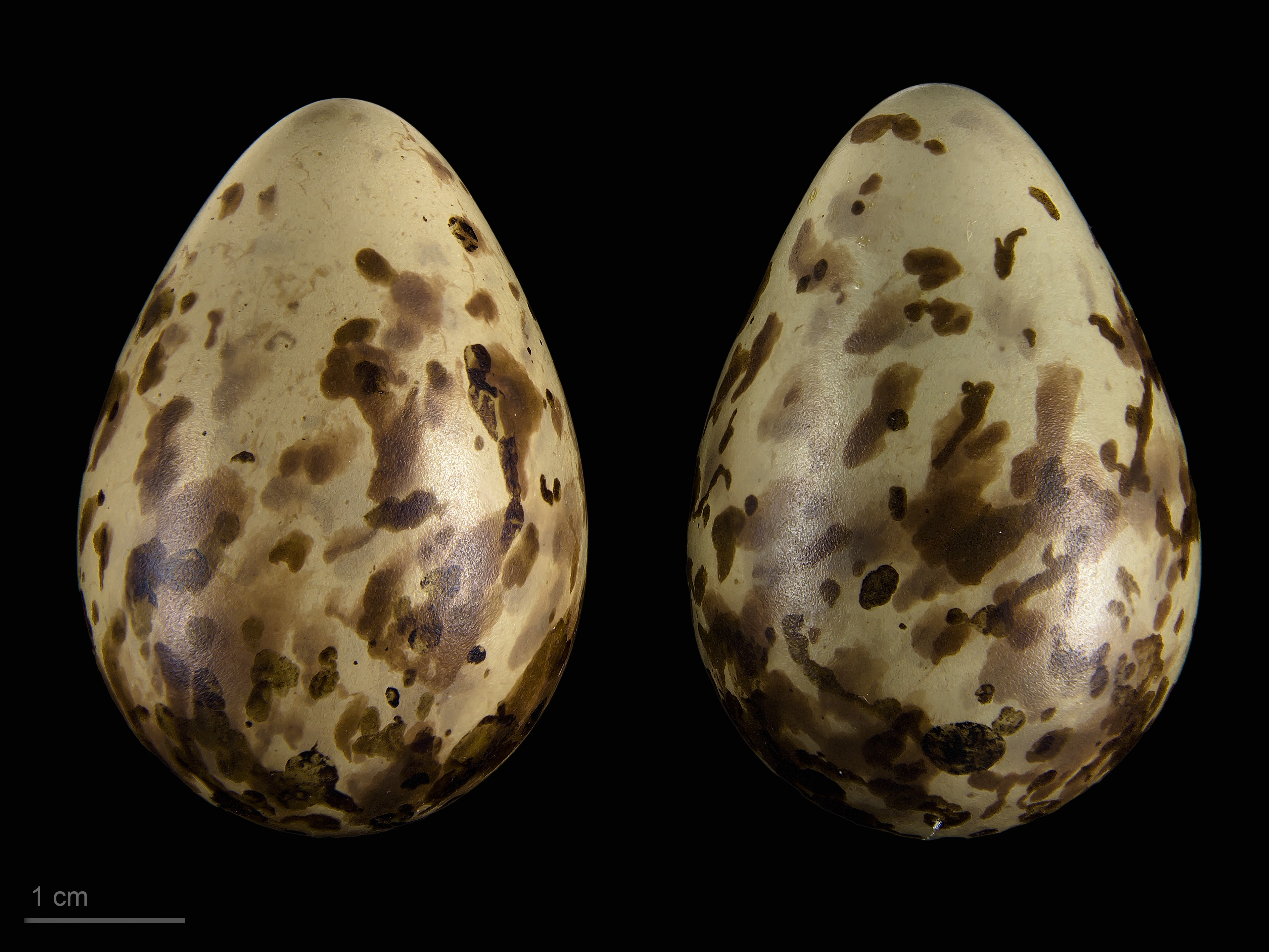 Eggs of purple sandpiper Two specimens of the same spawn ; collection of Jacques Perrin de Brichambaut.